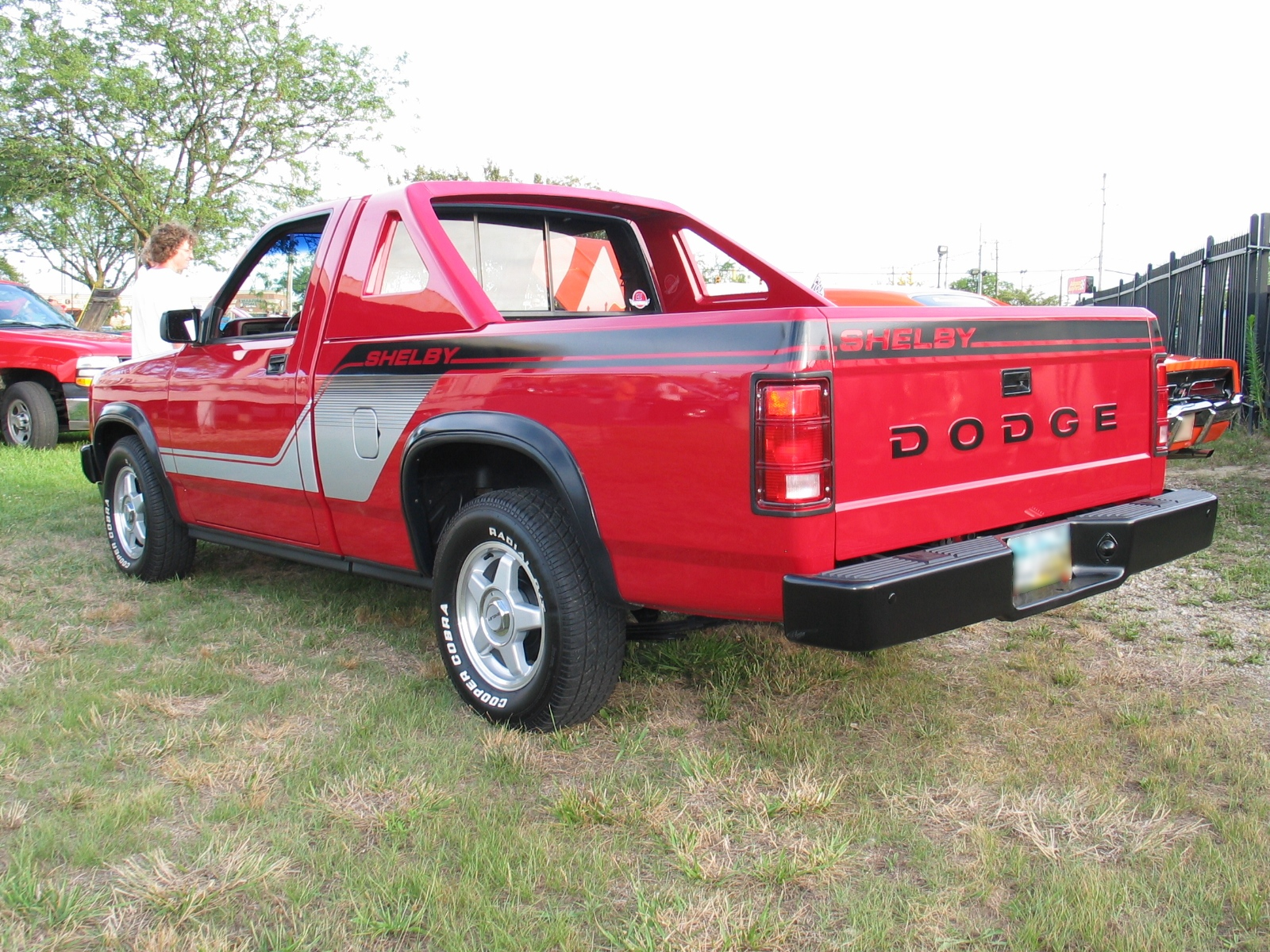 1989 Dodge Dakota Shelby